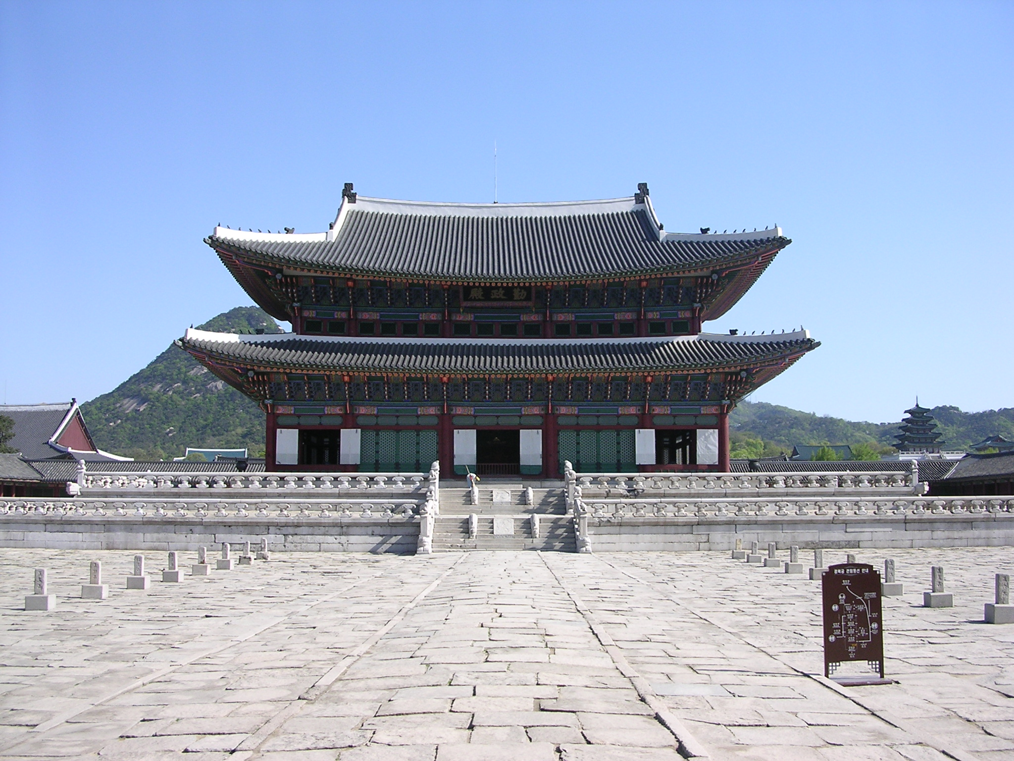 KeunJeongJeon in Gyeongbokgung, Seoul.